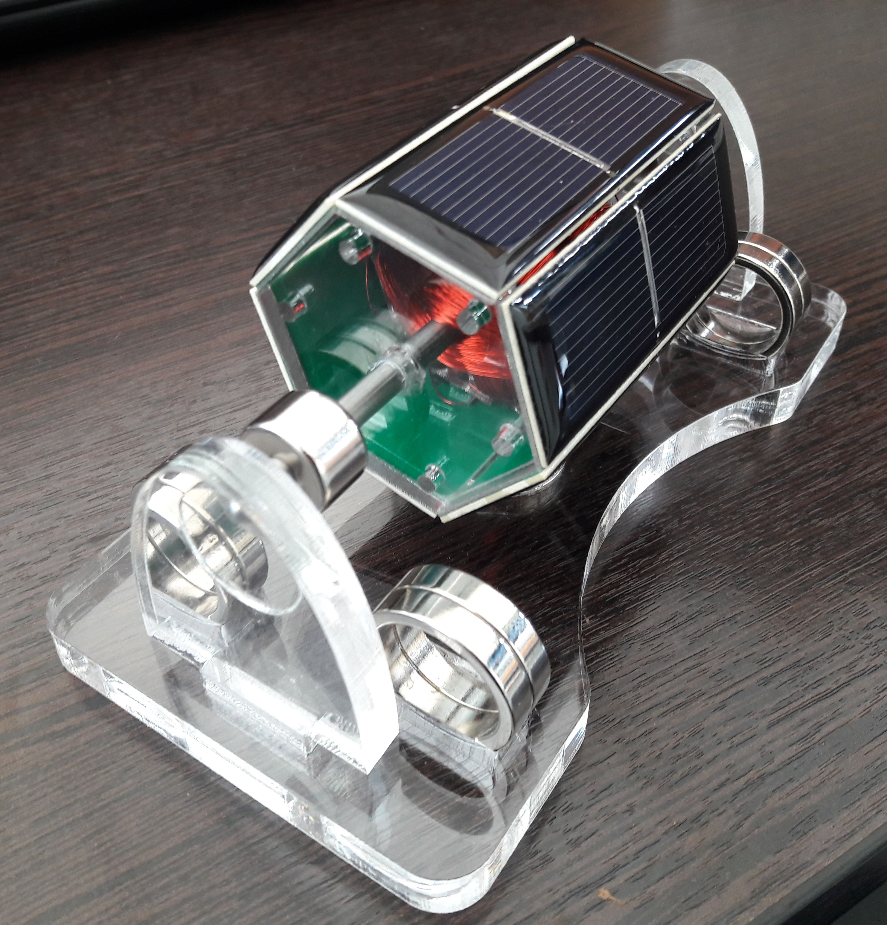 Mendocino motor